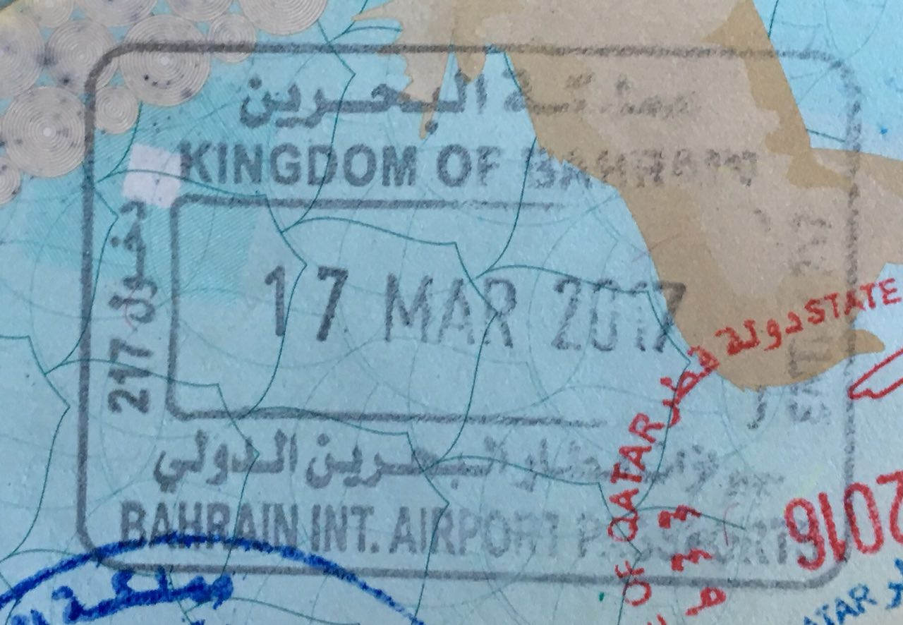 Bahrain entry stamp